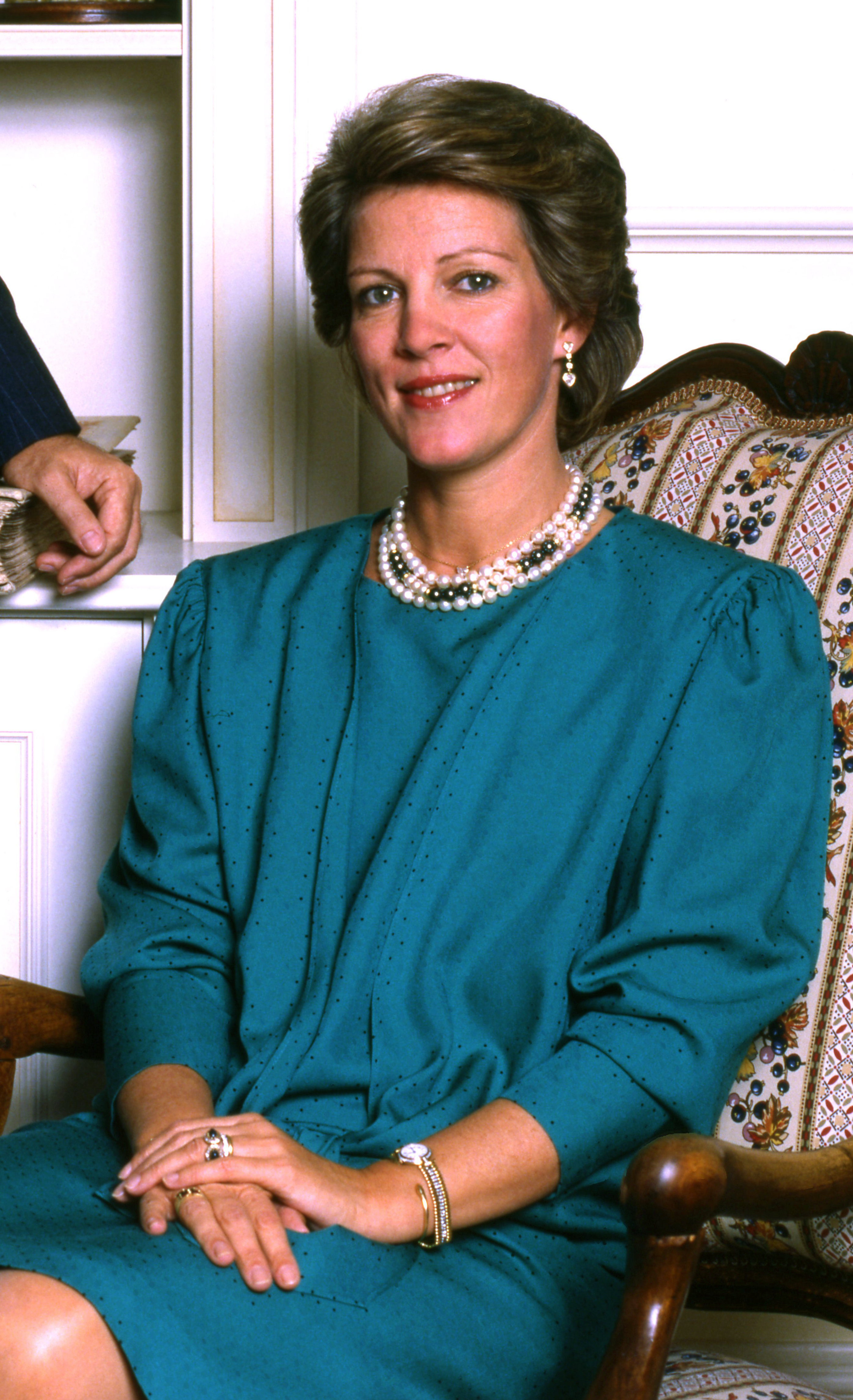 portrait of The former Queen Anne Marie of Greece.